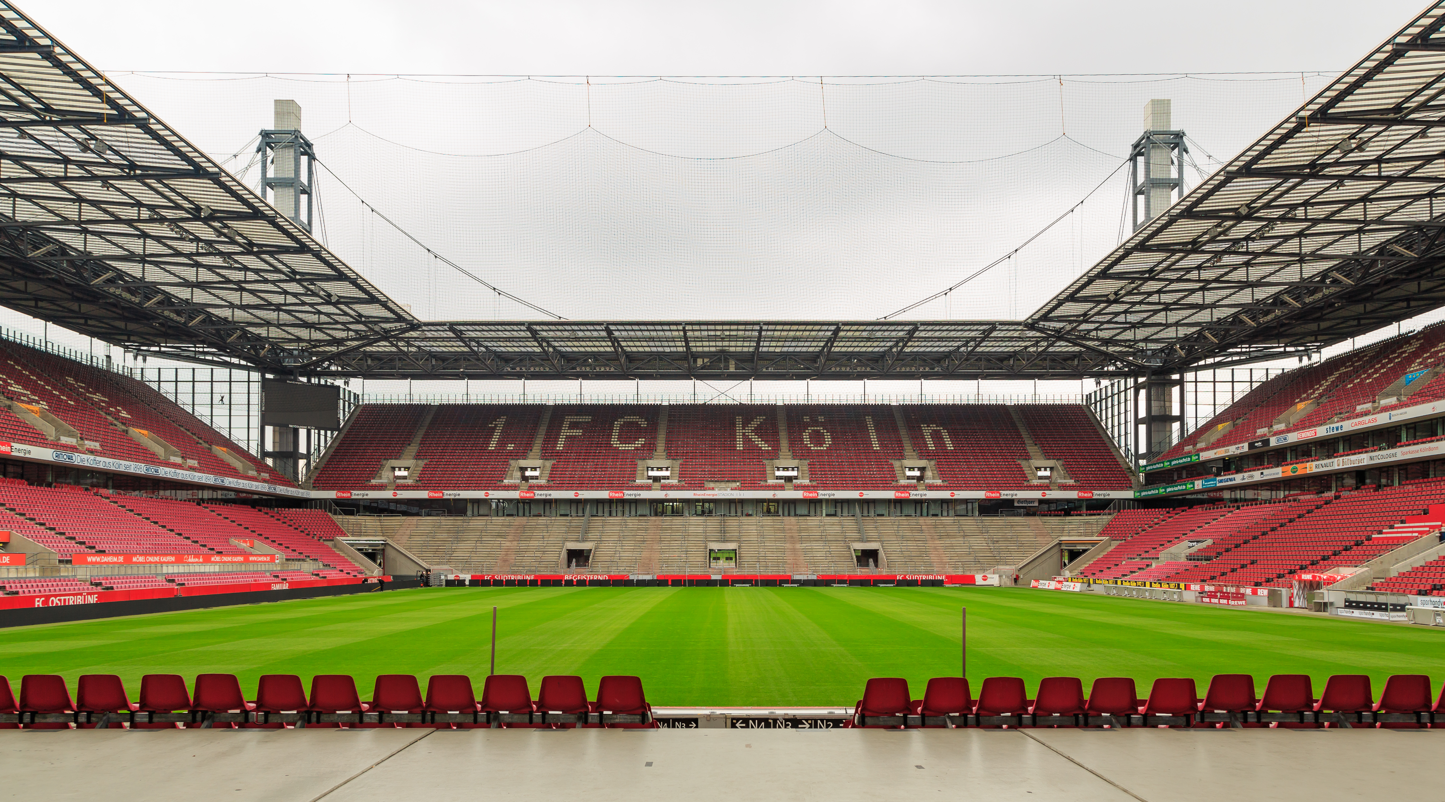 Cologne, Germany: RheinEnergieStadion in Cologne Müngersdorf